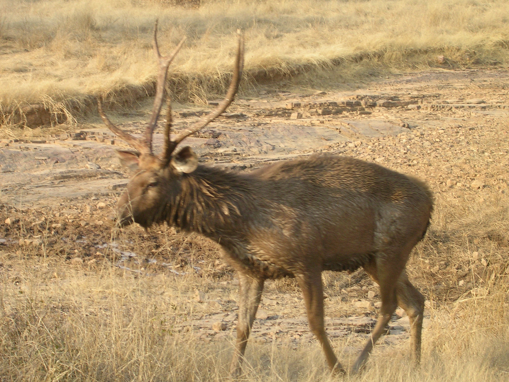 Sambar (Cervus unicolor) in Ranthambore National Park